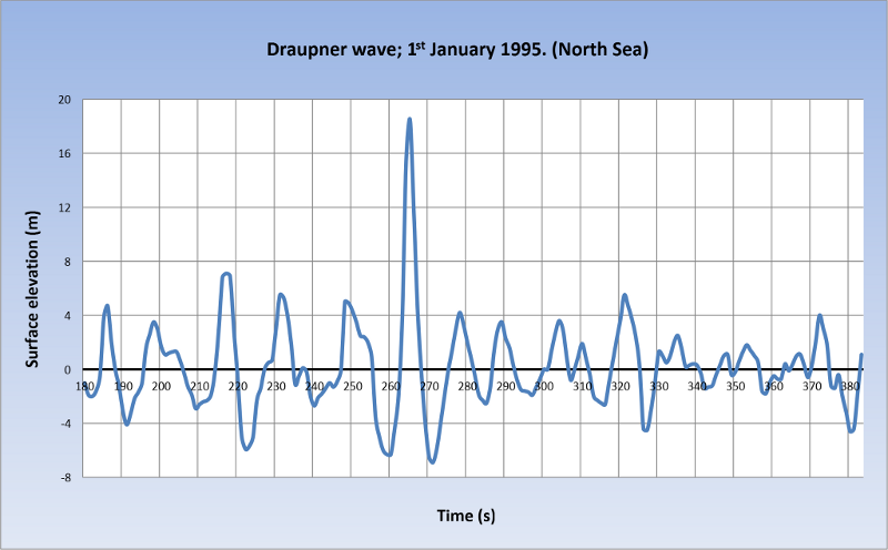 Freak wave that hit the Draupner E platform in the North Sea on 1st January 1995